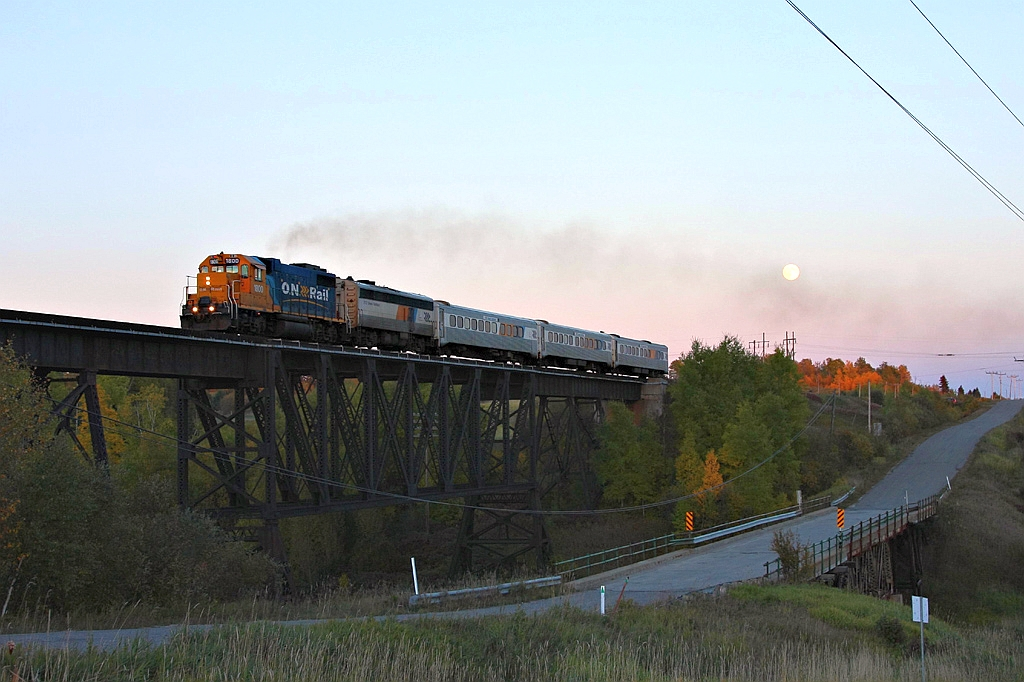 Smoke from Ontario Northland Railway's Toronto - Cochrane Northlander drifts over the train as it accelerates from a slow order at Monteith, Ontario